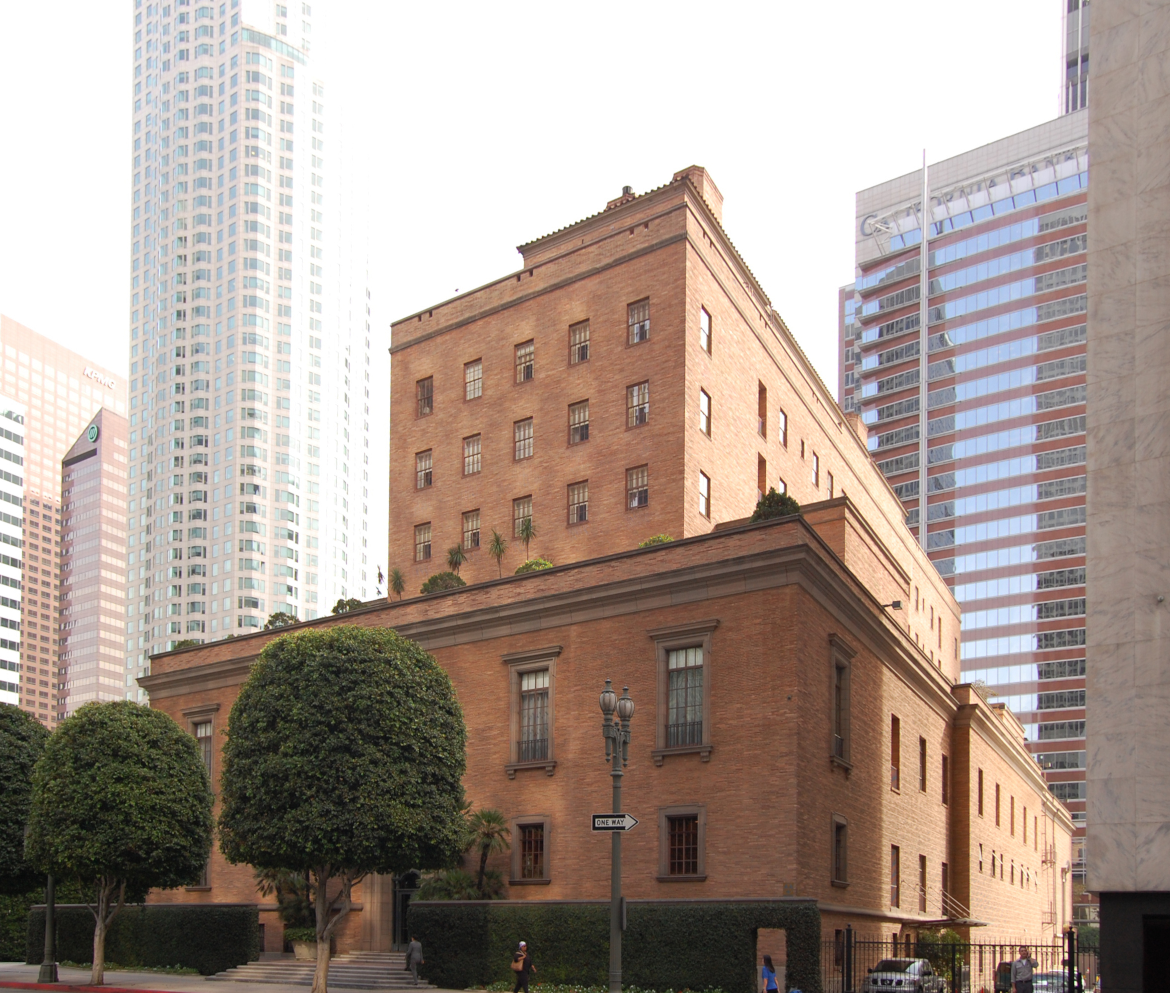 The California Club building — a 1930 Italian Renaissance Revival style mens clubhouse on South Flower Street, in Template:Downtown Los Angeles, California. The Los Angeles Historic-Cultural Monument is also listed on the National Register of Historic Places in Los Angeles.